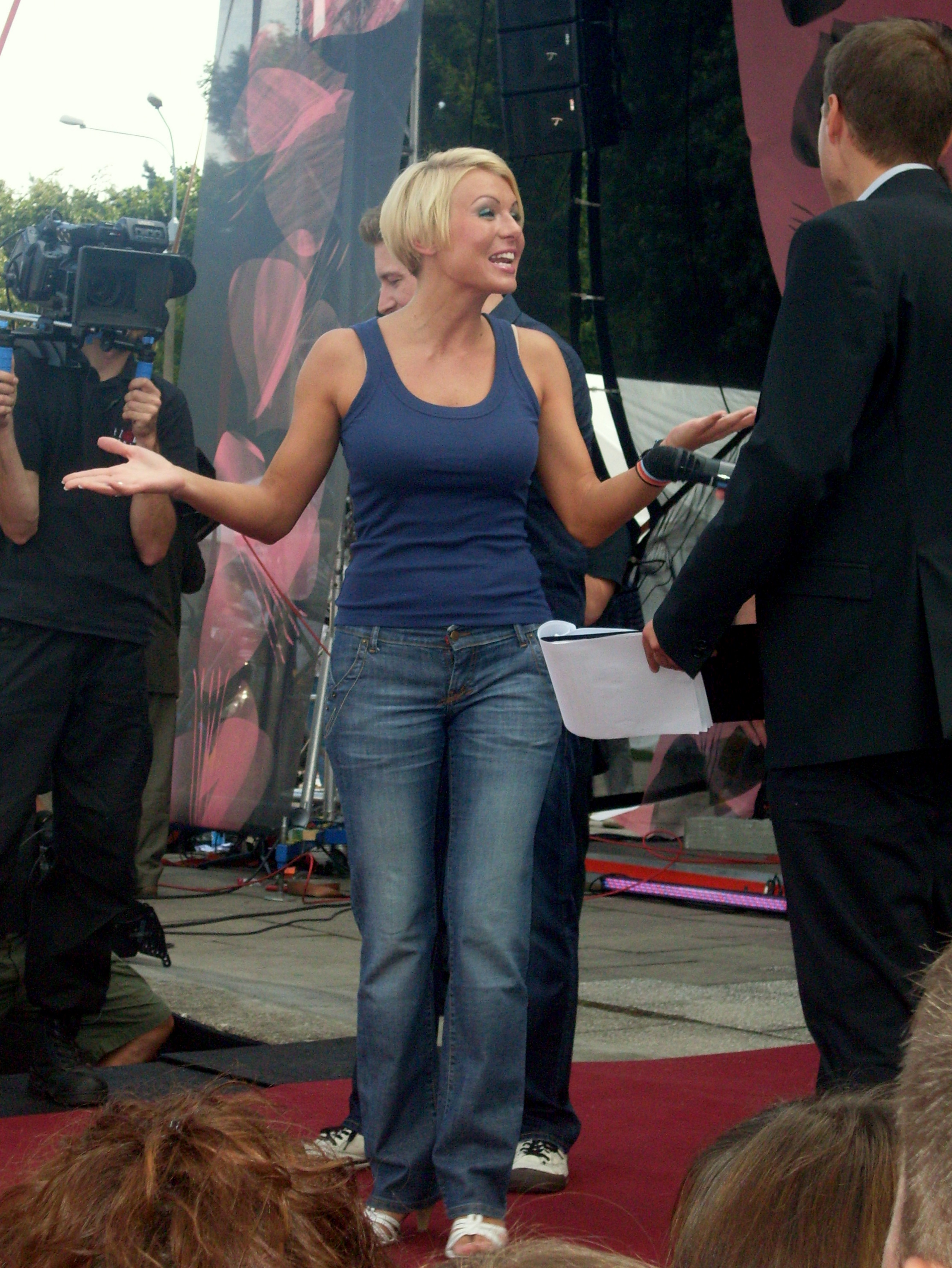 Karolina Nowakowska with MC at Meeting of Fans of the TV series 'M jak miłość' in Gdynia 2009. "M jak Miłość" in exact translations: "L as Love".